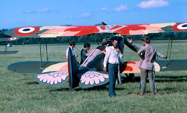 Cliff Robertson film on Red Baron painted aircraft, 1969